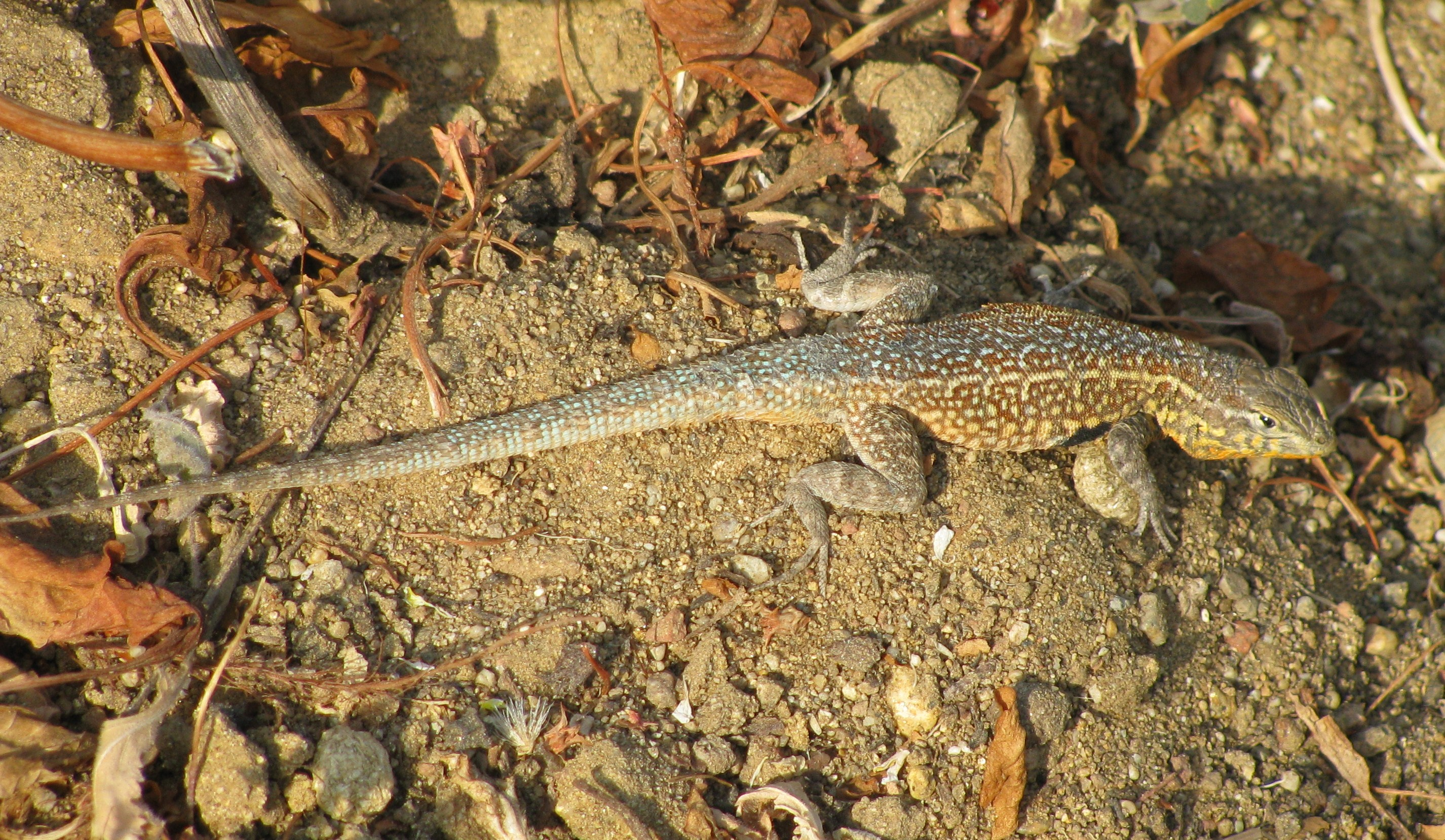 Uta stansburiana - Common Side-blotched Lizard Location: Emery Ranch Trail, Fullerton, CA, USA Probably a male. ID based on this site